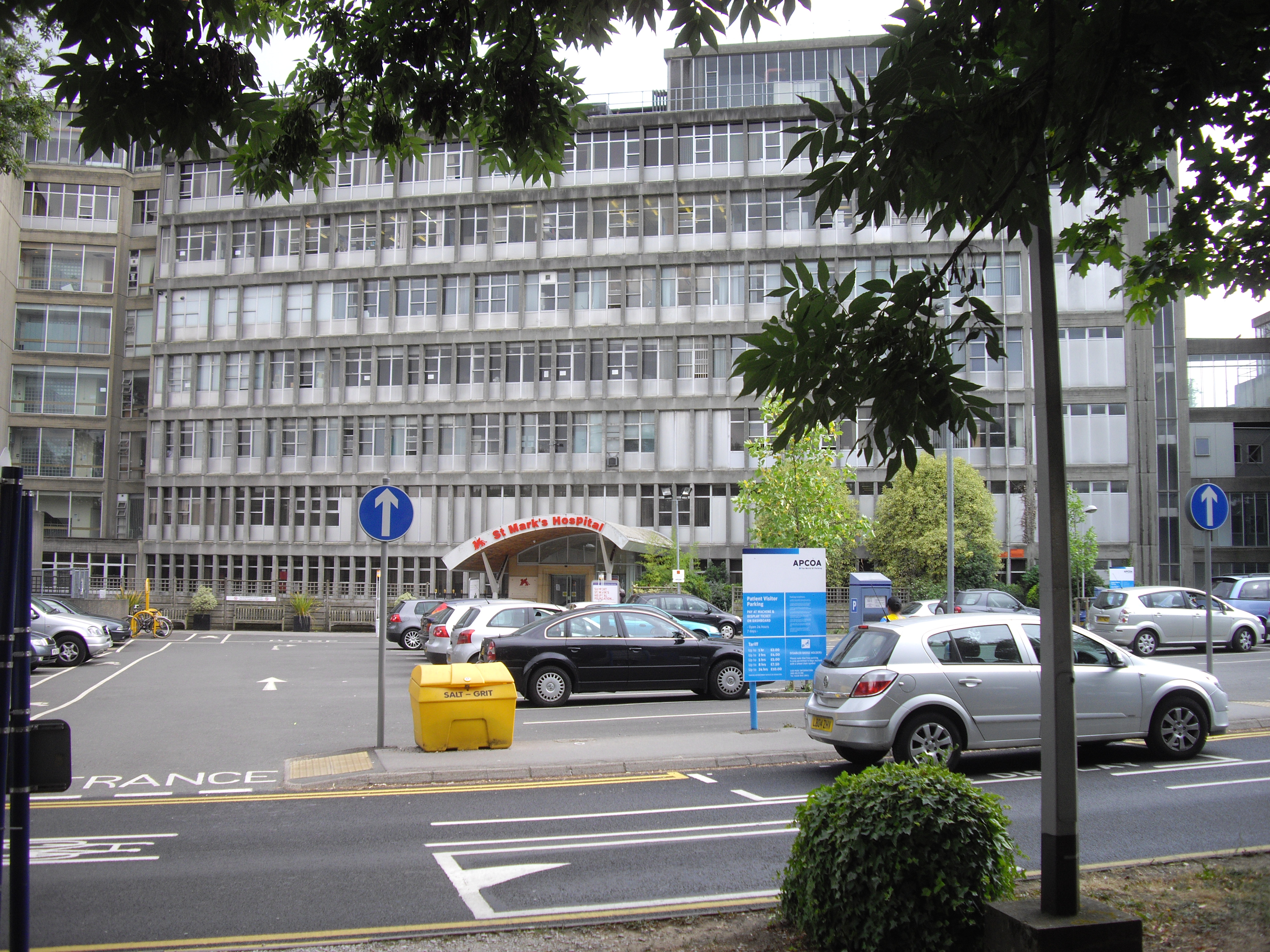 St Mark's Hospital Northwick Park